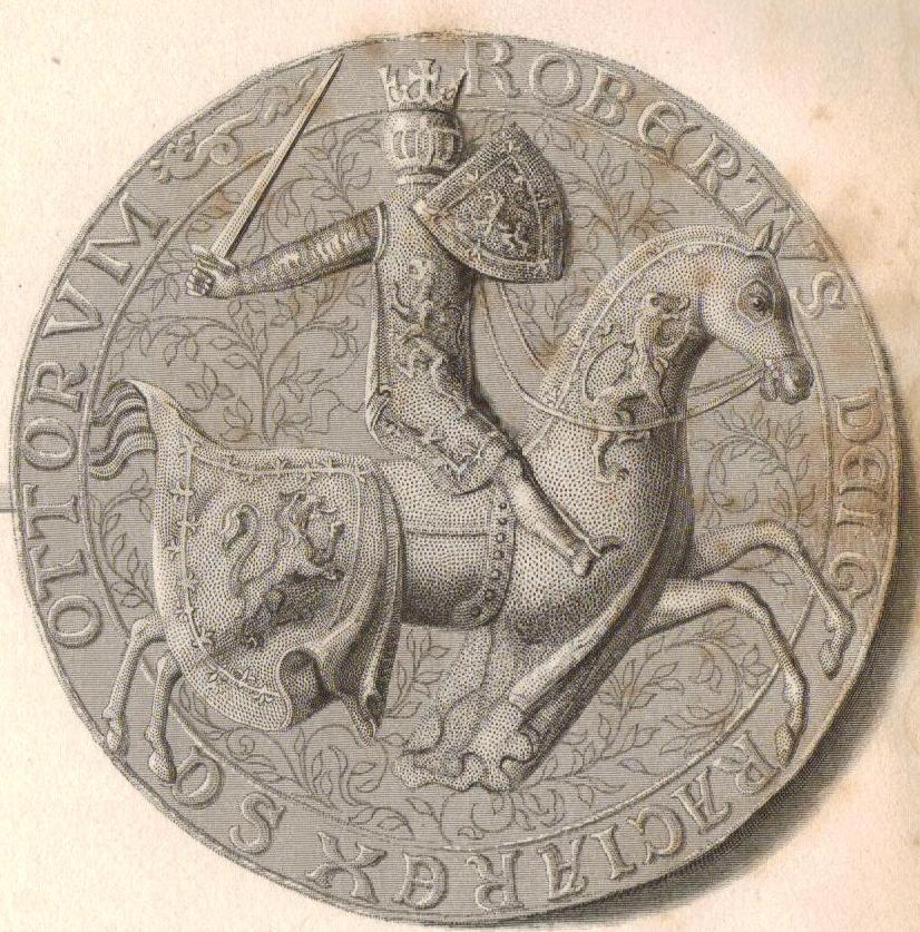 Steel engraving and enhancement of the Great Seal of Robert II, King of Alba (Scotland).